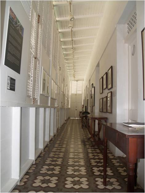 Casa Paoli, at 14 Mayor Street, in Ponce, Puerto Rico. Photo is interior, showing wooden ceiling and above-window and above-doorway detail work, taken on July 22, 2009 by Juan Llanes Santos of the Puerto Rico State Historic Preservation Office. Please acknowledge author name and agency in any use.